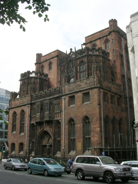 John Rylands University Library. Another view of the library taken across Deansgate.